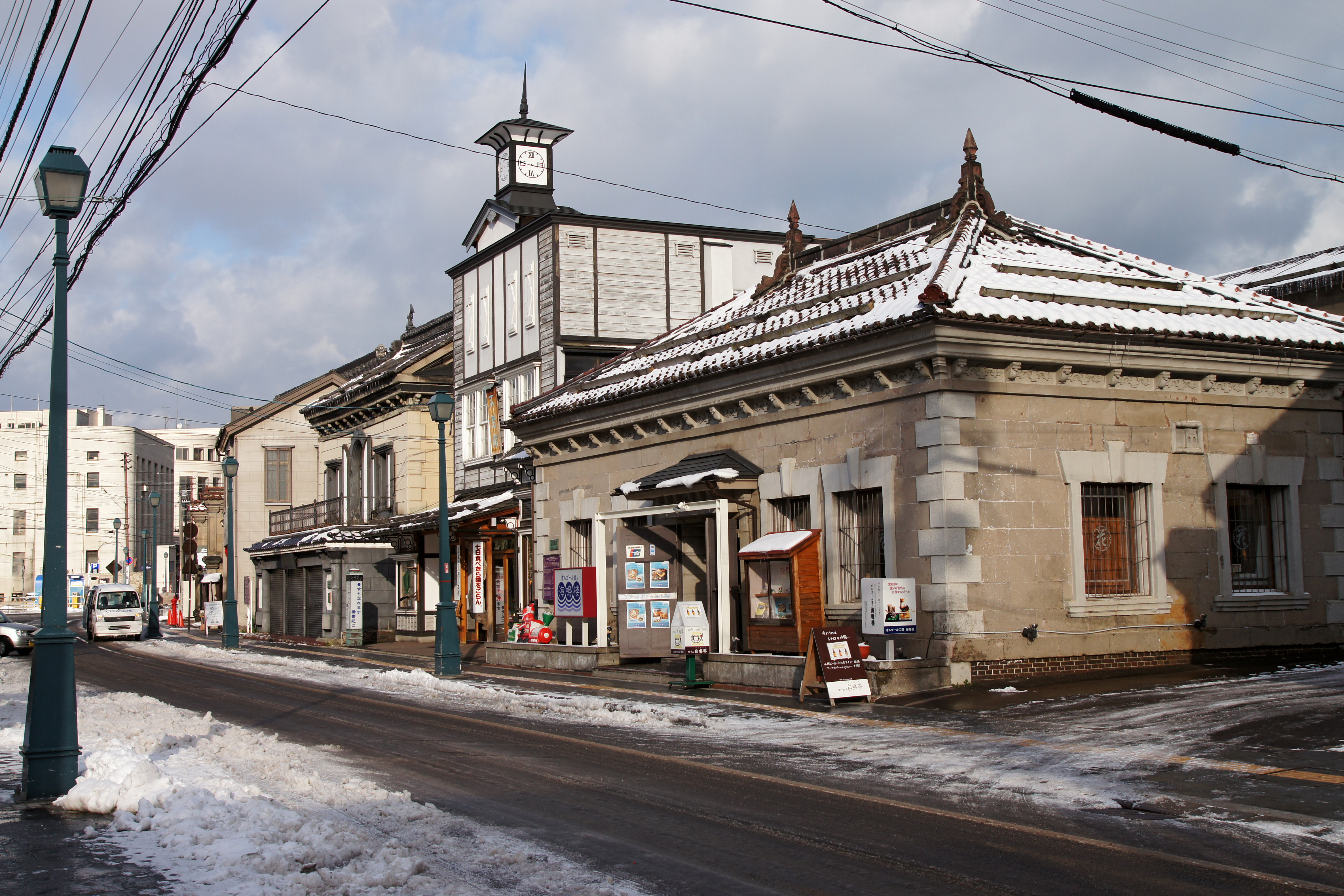 Former Dai-Hyakujusan National Bank at Sakaimachi-dori (Sakaimachi Street) in Otaru, Hokkaido prefecture, Japan